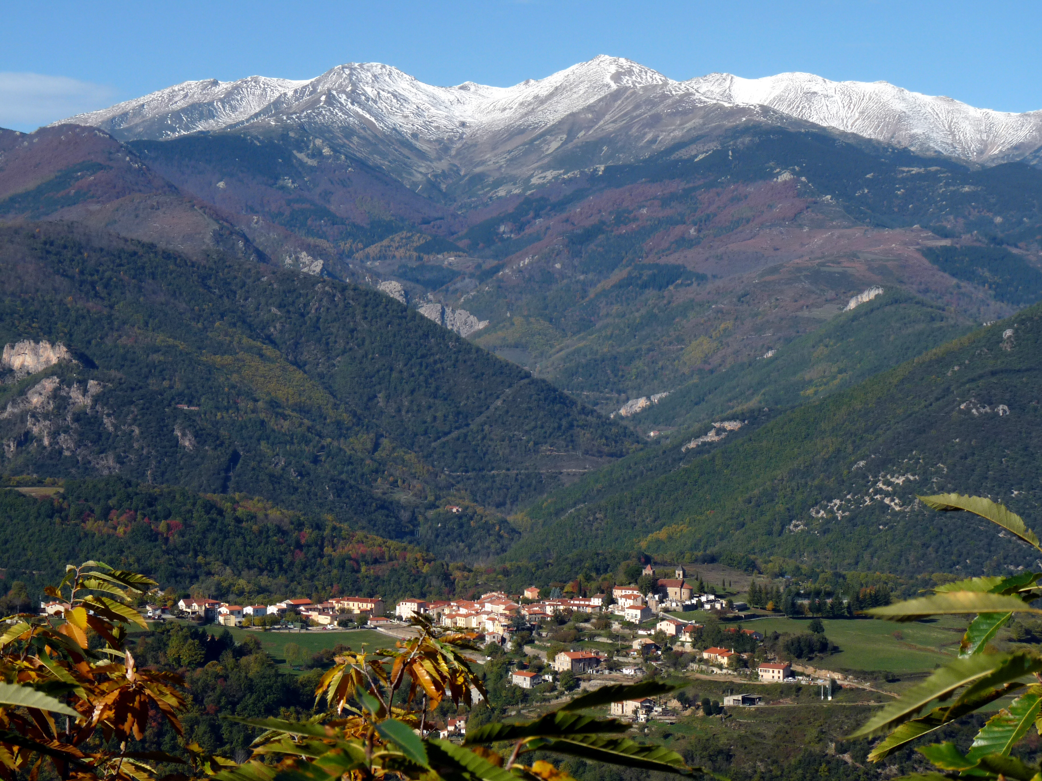 General view on the village of Serralongue (France) in front of the Canigou massif